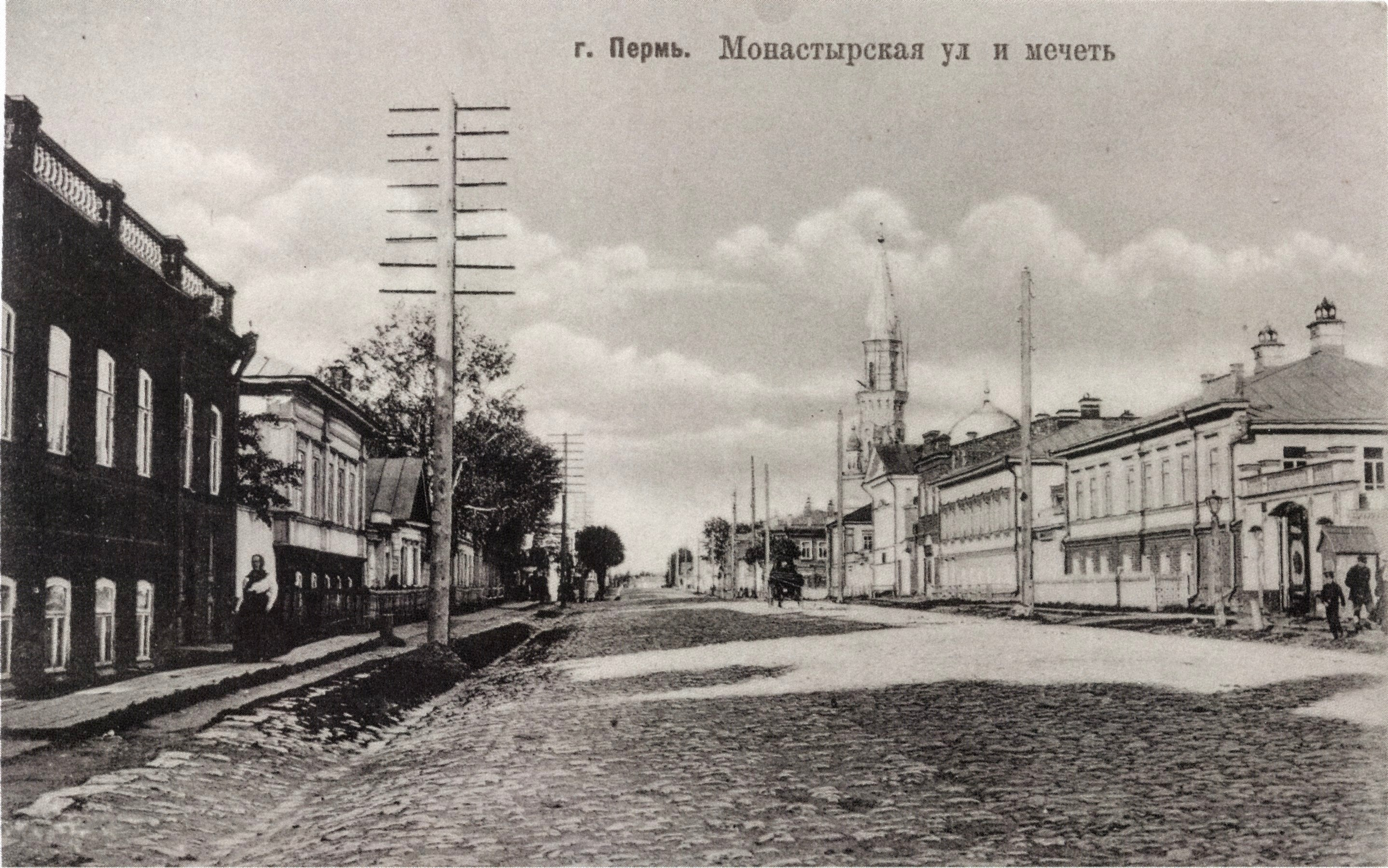 Open Letter (Carte Postale) with view of Russian city Perm (early XX century)